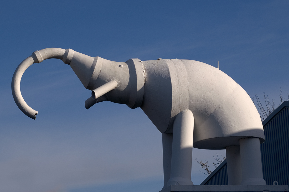 Camberleys White Elephant